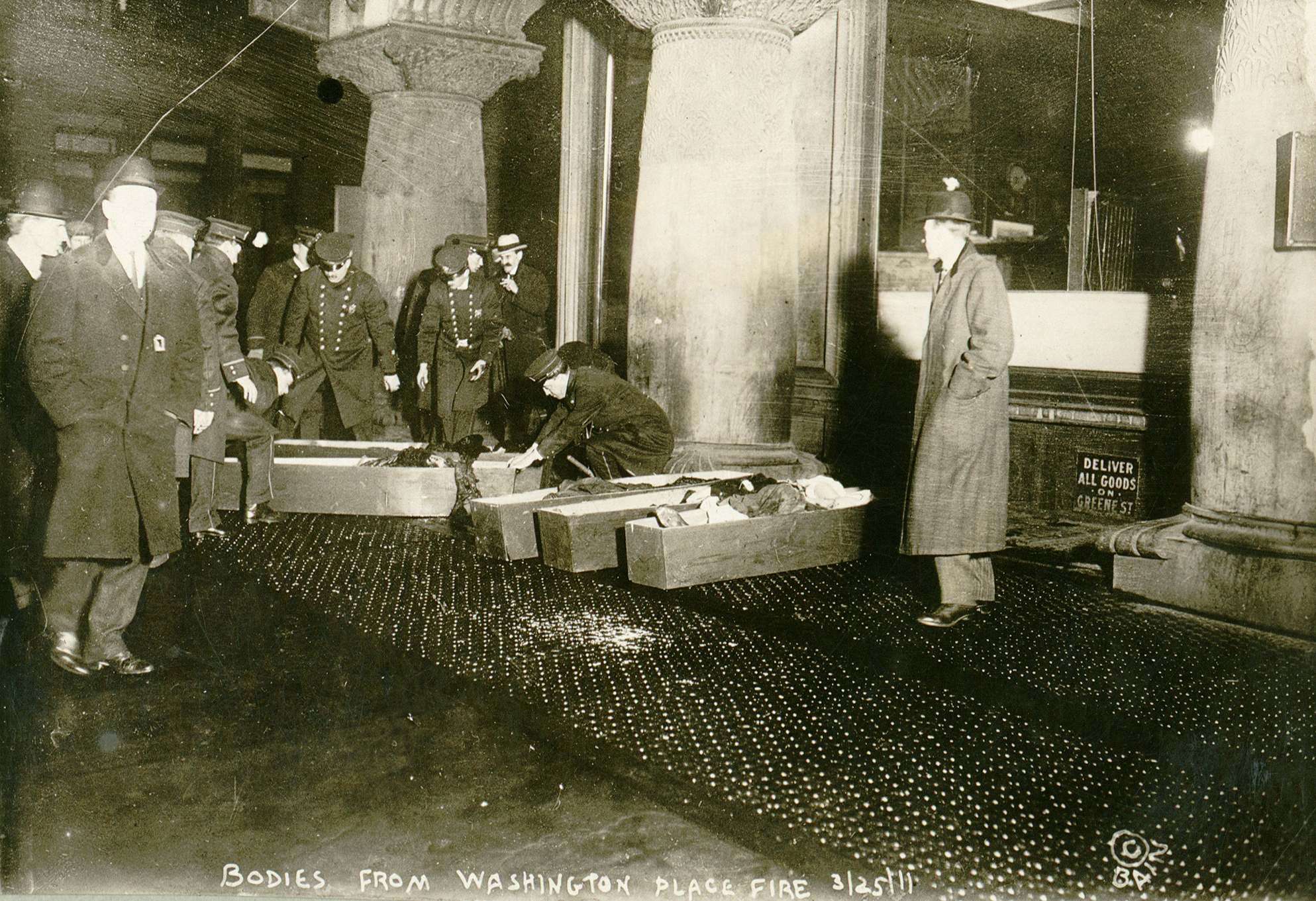 Photograph shows police or fire officials placing Triangle Shirtwaist Company fire victims in coffins.